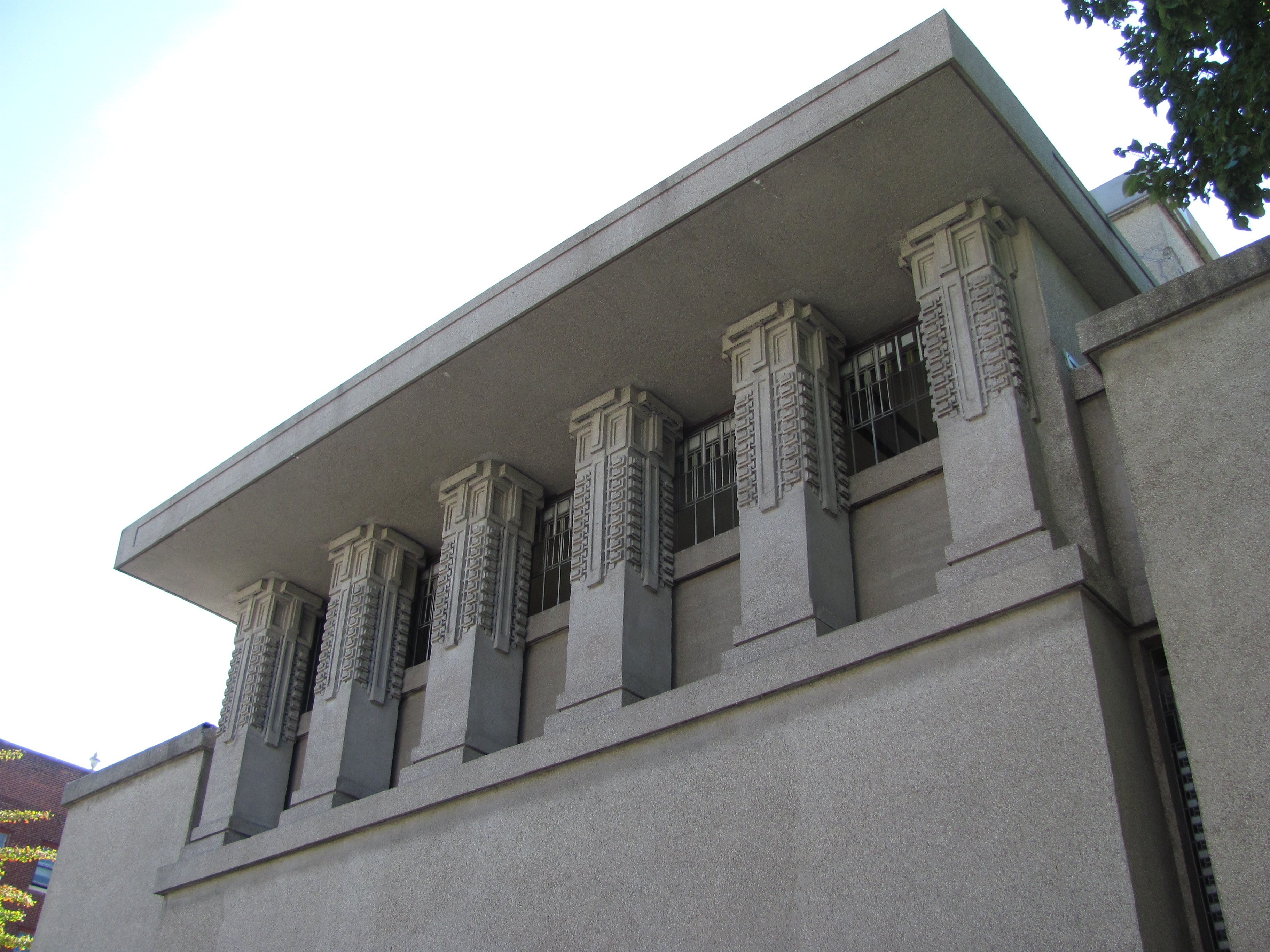 Unity Temple, Oak Park, Illinois, USA